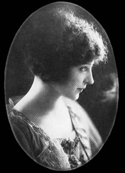 Photograph of Anaïs Nin as a teenager, circa 1920.